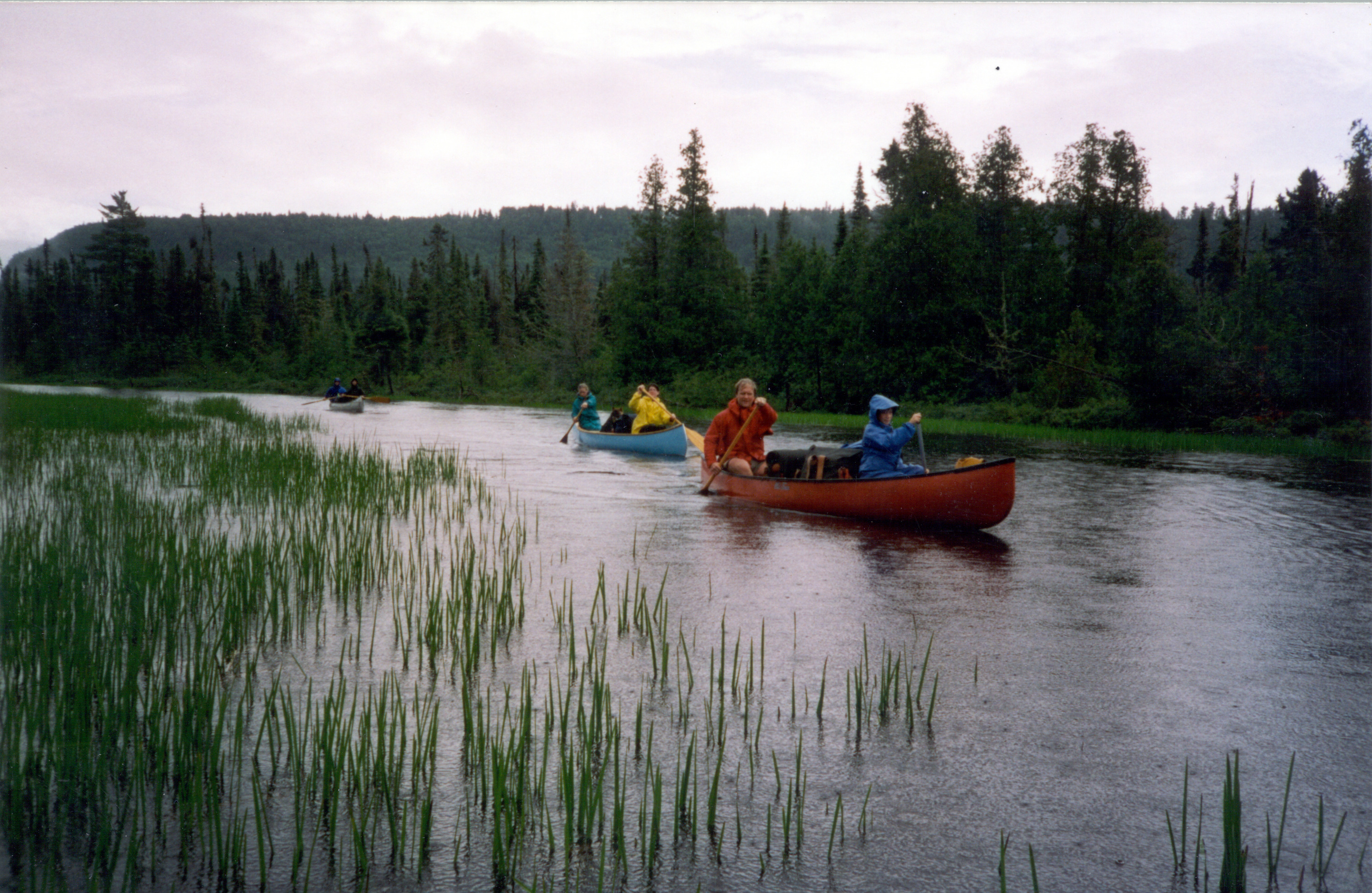 Canoeing on the Rainy River in the Boundary Waters Canoe Area Wilderness.